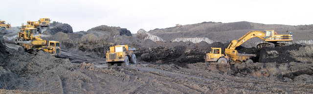 Grimethorpe 'muck' stack remediation These machines have years worth of work in front of them.